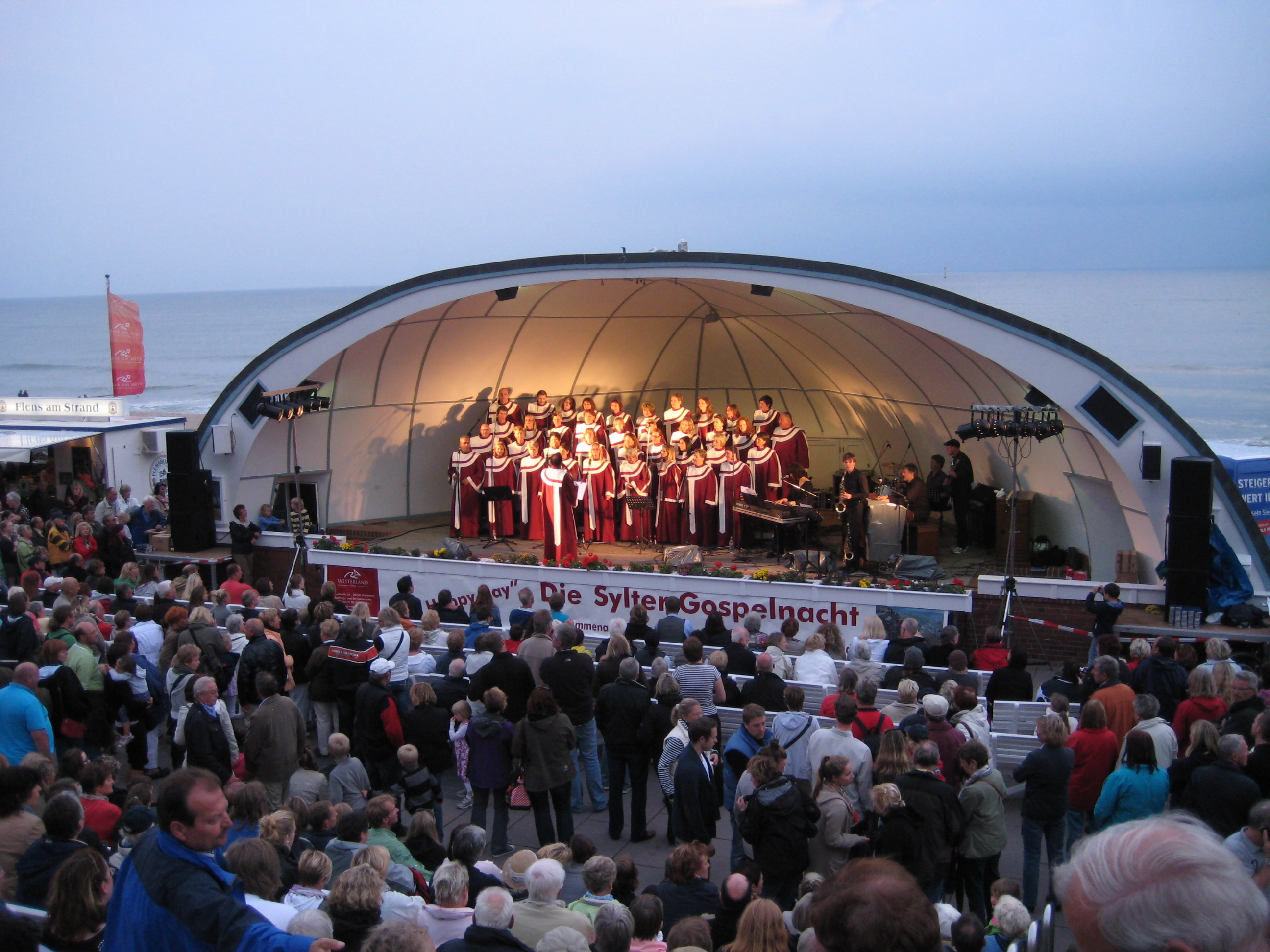 Music pavillon at the beach promenade